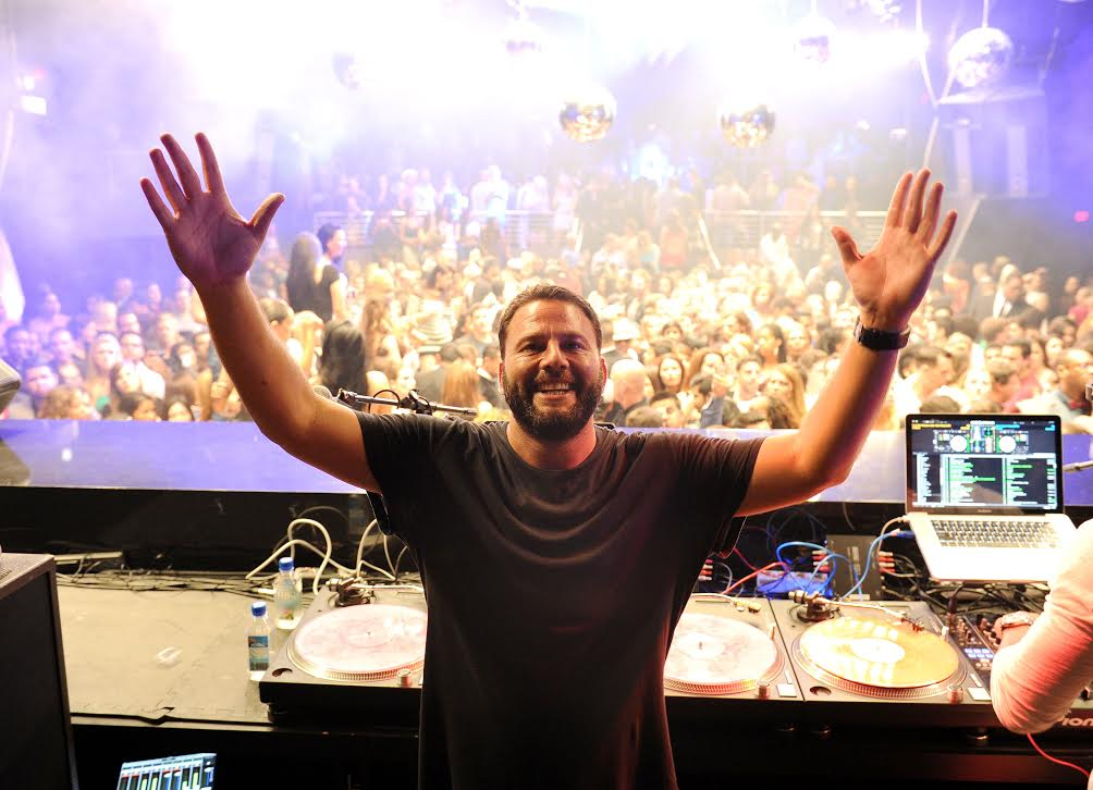 A picture of Dave Grutman